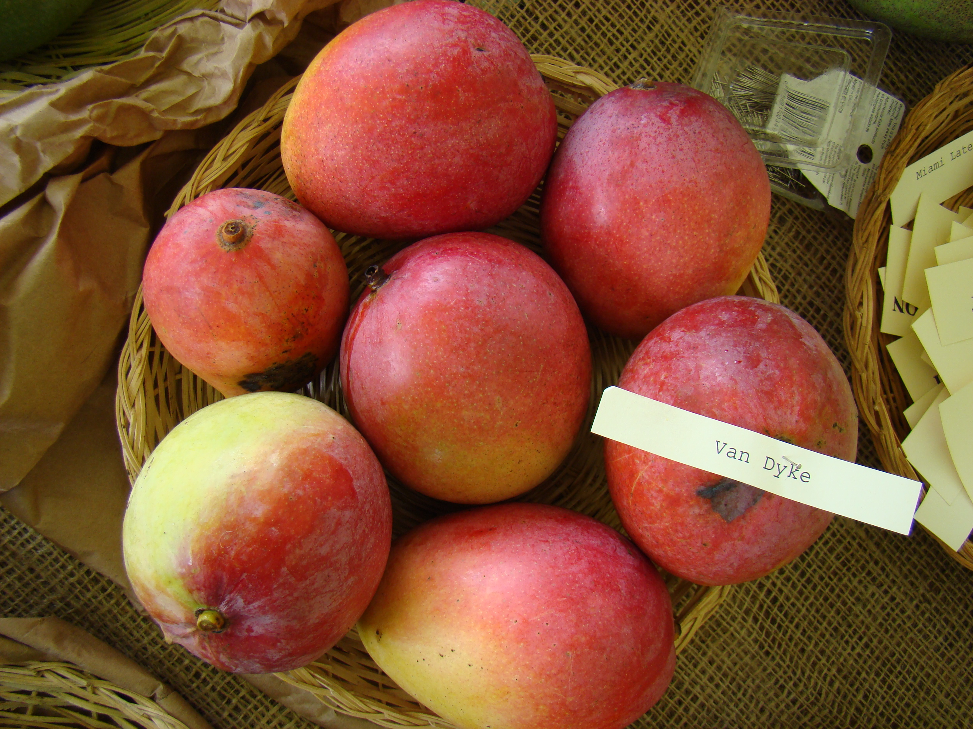 This is a photo of the display of Van Dyke mango at the Redland Summer Fruit Festival, Fruit & Spice Park, Homestead, Florida.